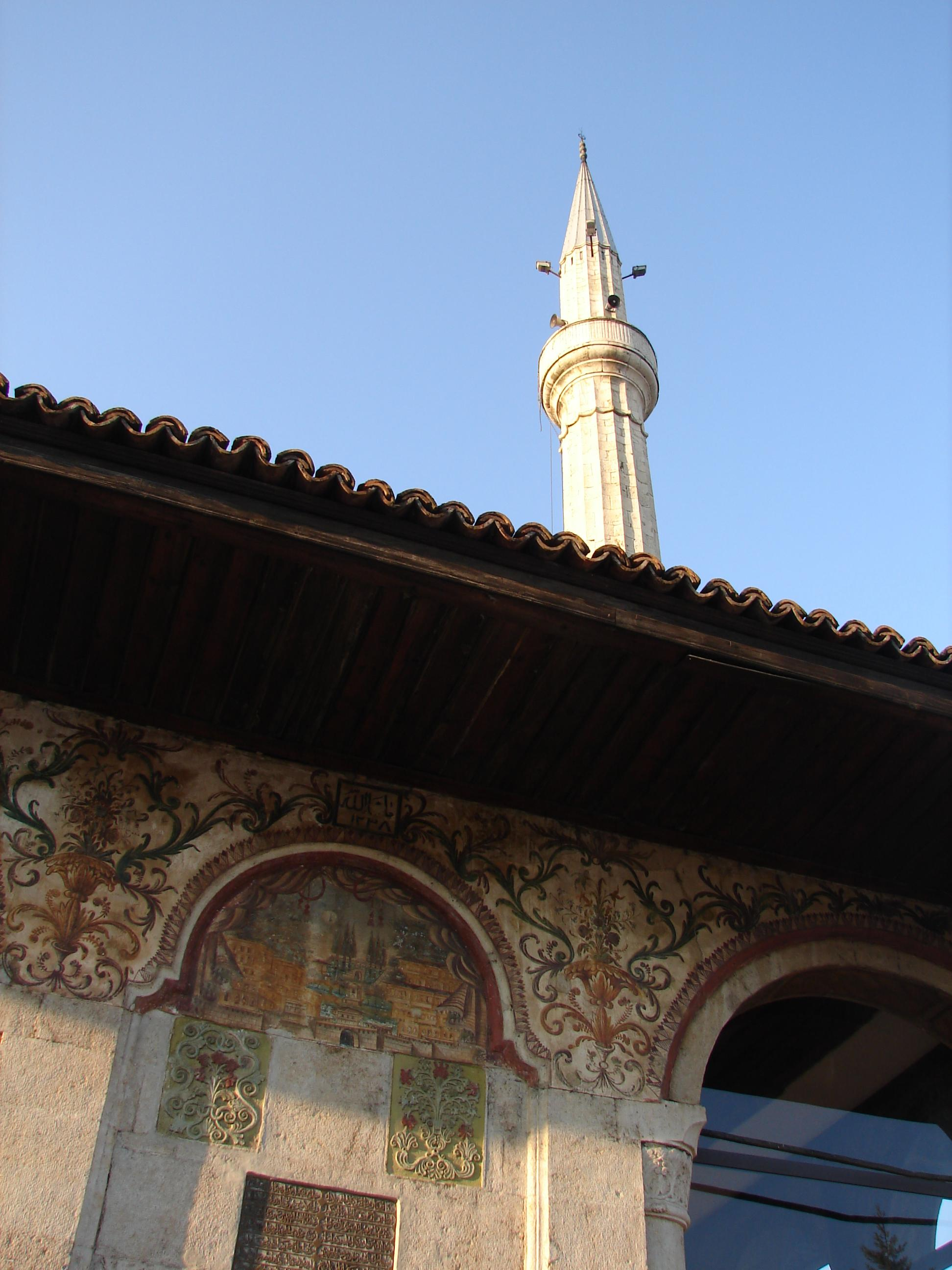 tirana Et'hem Bey Mosque